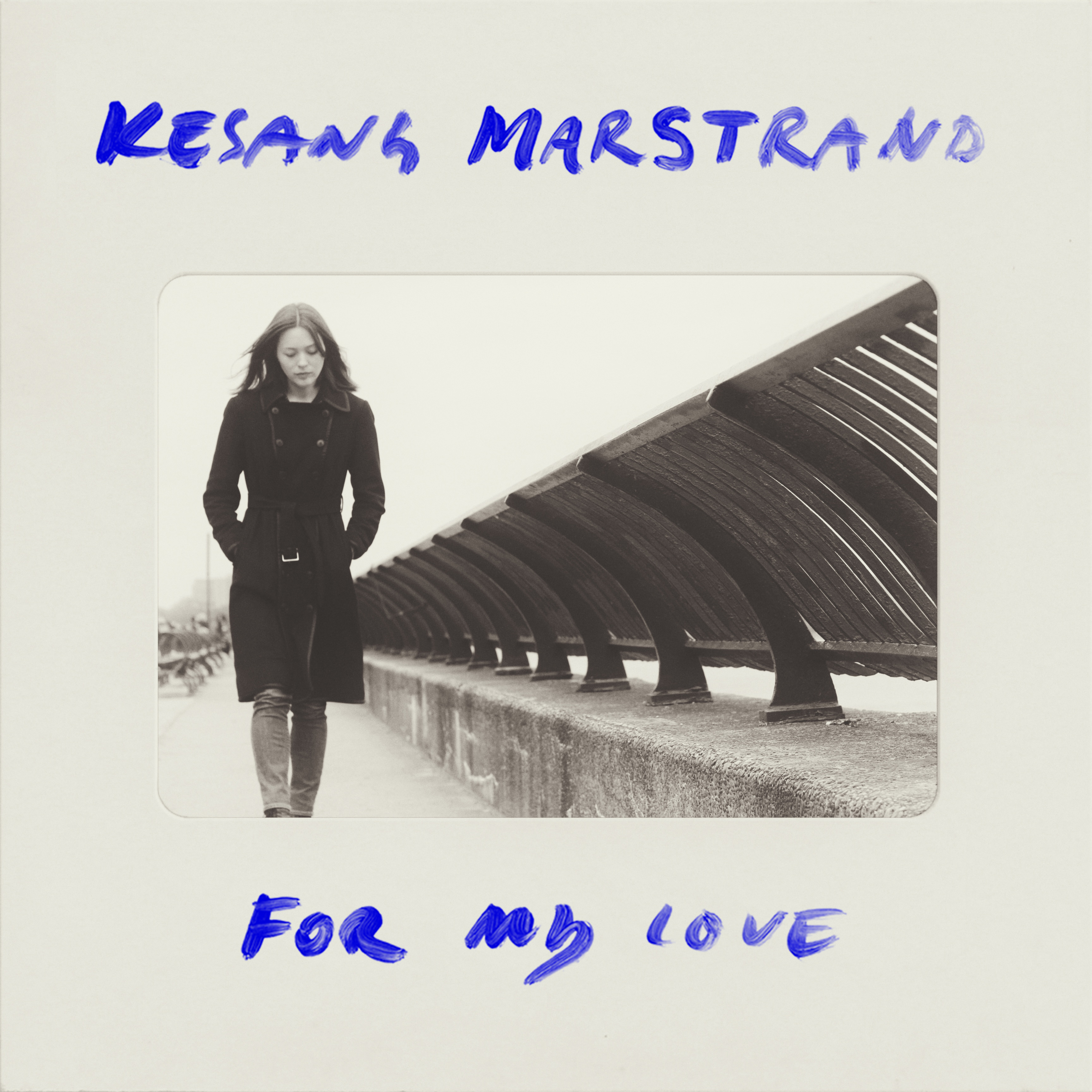 Kesang Marstrand walking in Carl Schurz Park in New York City.